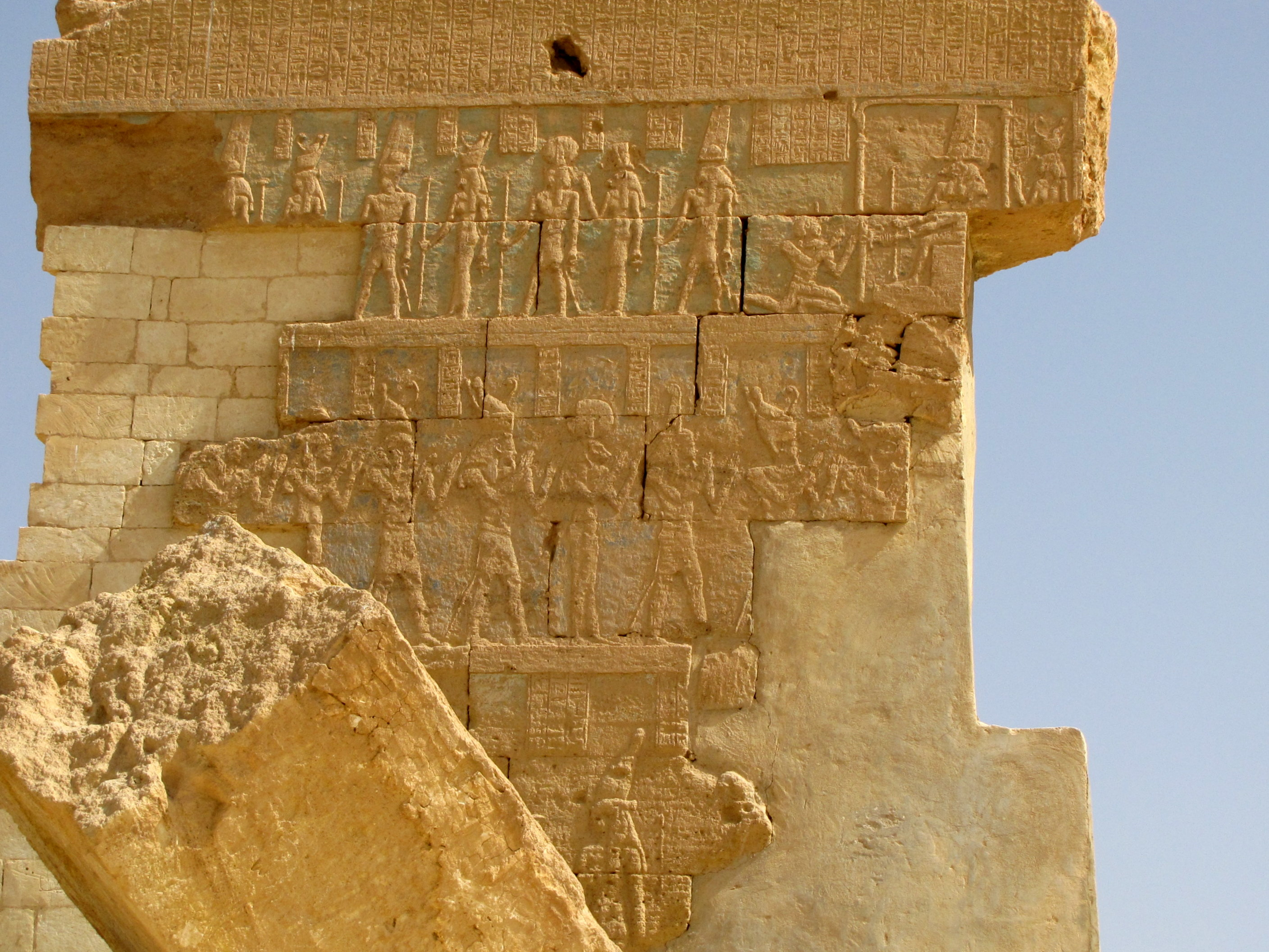 The last remaining wall of the Temple of Amun at Siwa Oasis.